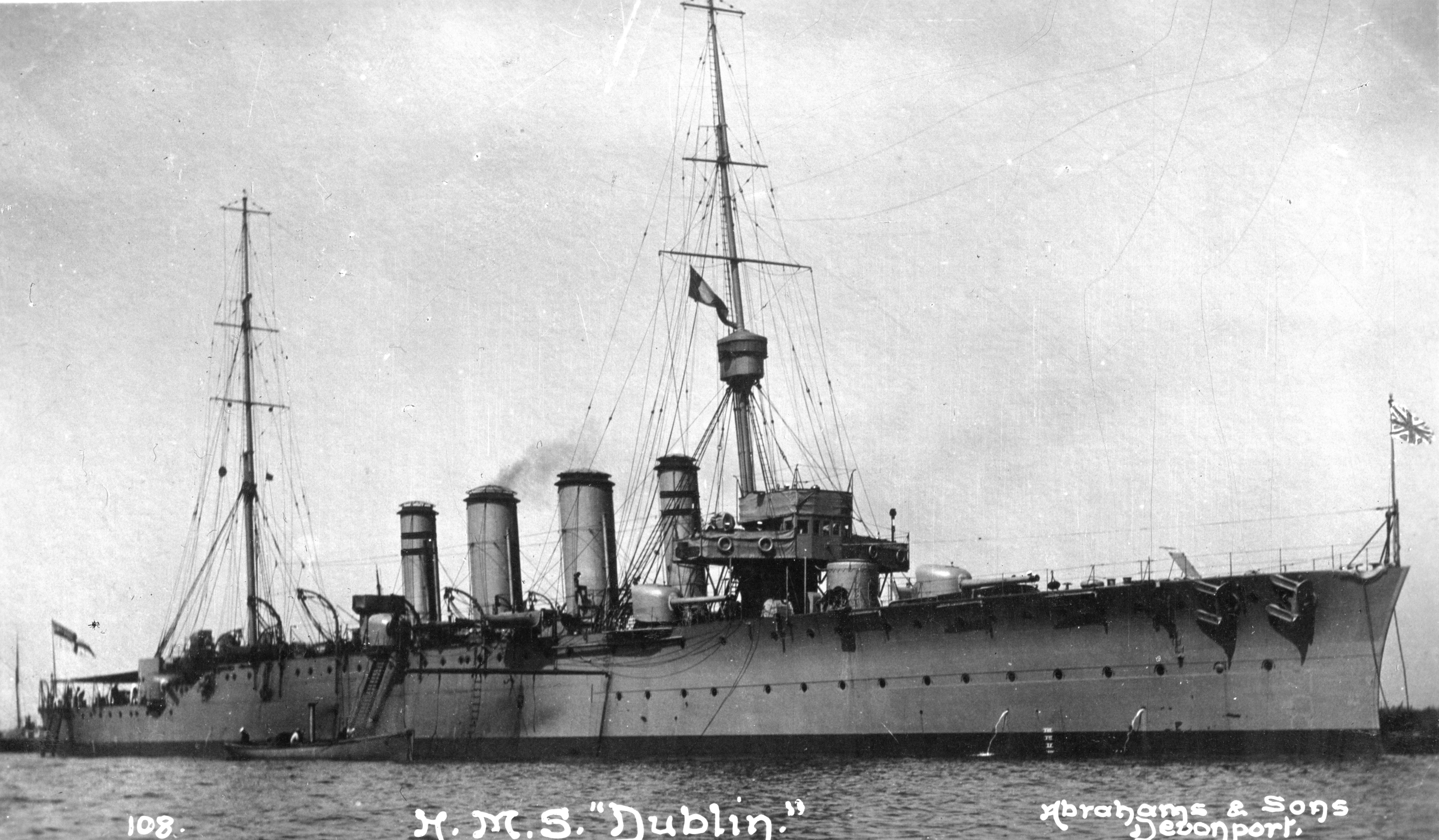 Stoker Edwards of Pontypridd served on the light cruiser HMS Dublin during 1916-1919. He was present at the battle of Jutland when she suffered damage and casualties. In November 1917 she sailed to Murmask carrying gold bullion to finance the White Russia forces. Tom was demobbed in February 1919. The postcard of the Dublin shows her probably pre-war. The silk card of her ship's badge was collected during the Great War. The battle ensign she wore at Jutland still exists in Dublin.